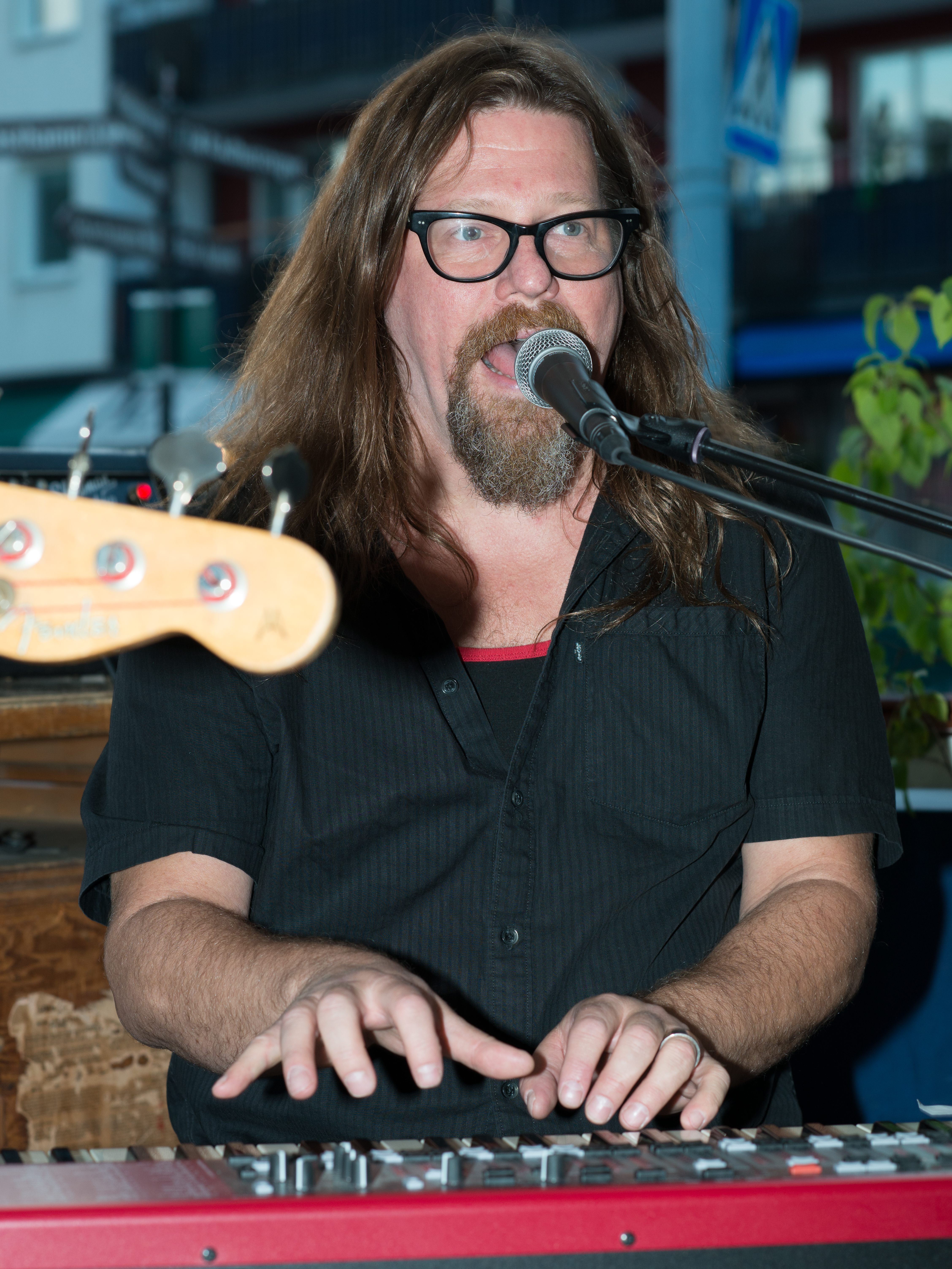 Max Lorentz July 2014